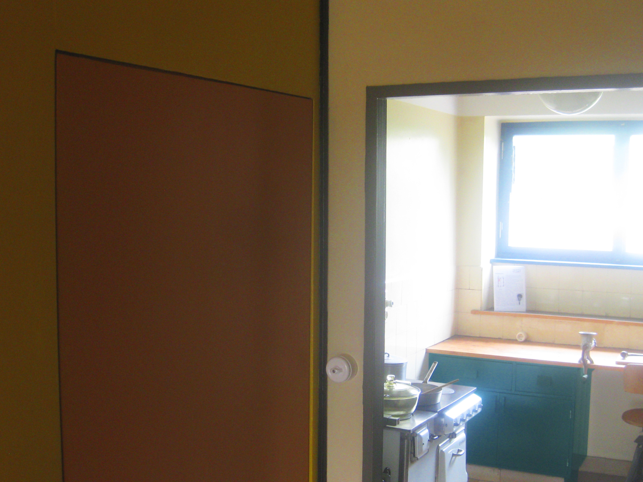 Colour scheme of the New Frankfurt project in the Ernst-May-House